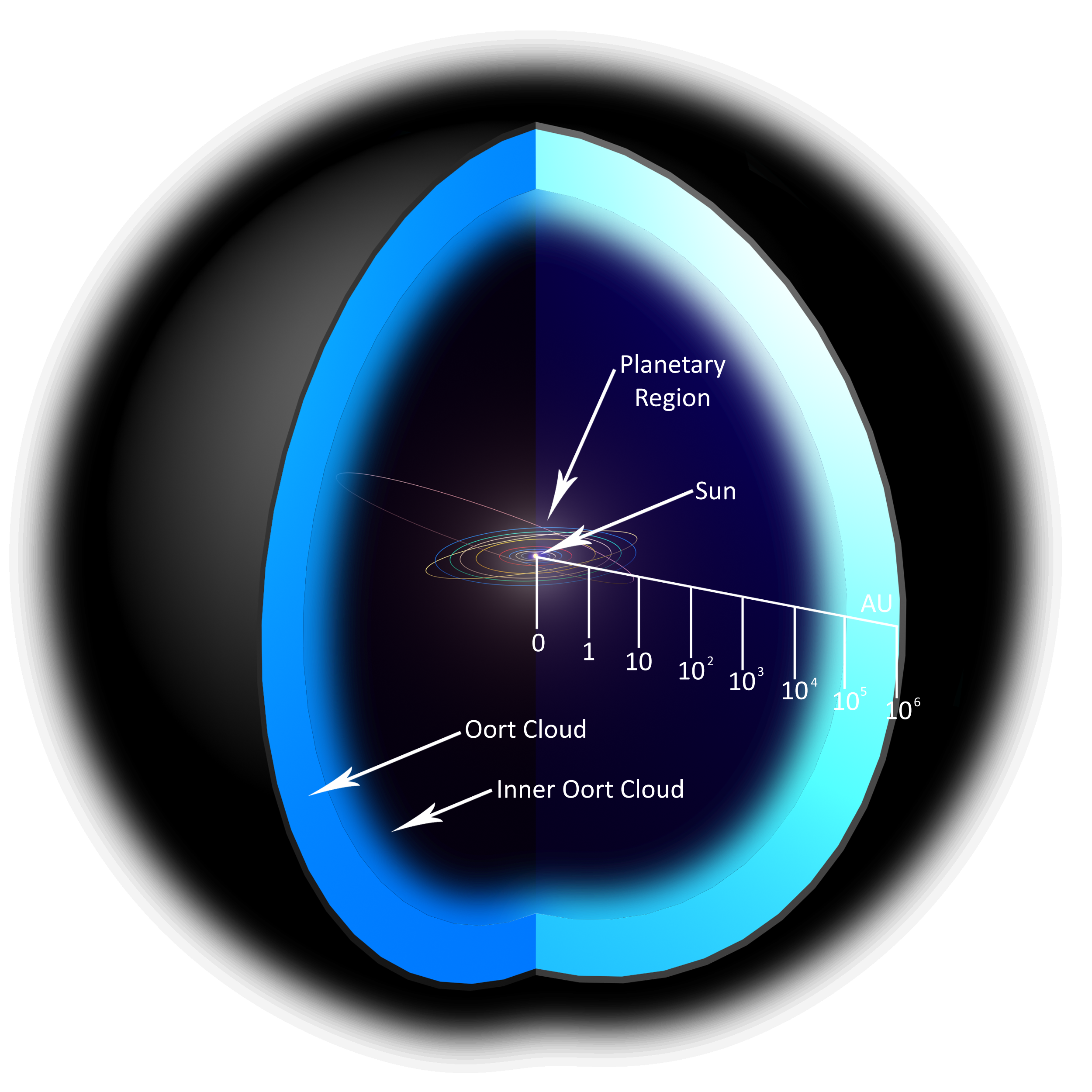 An artist's rendering of the Oort cloud. Note: Planetary region is not to scale.